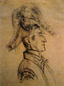 Draing of José María Melo, President of the Republic of New Granada, now Colombia.